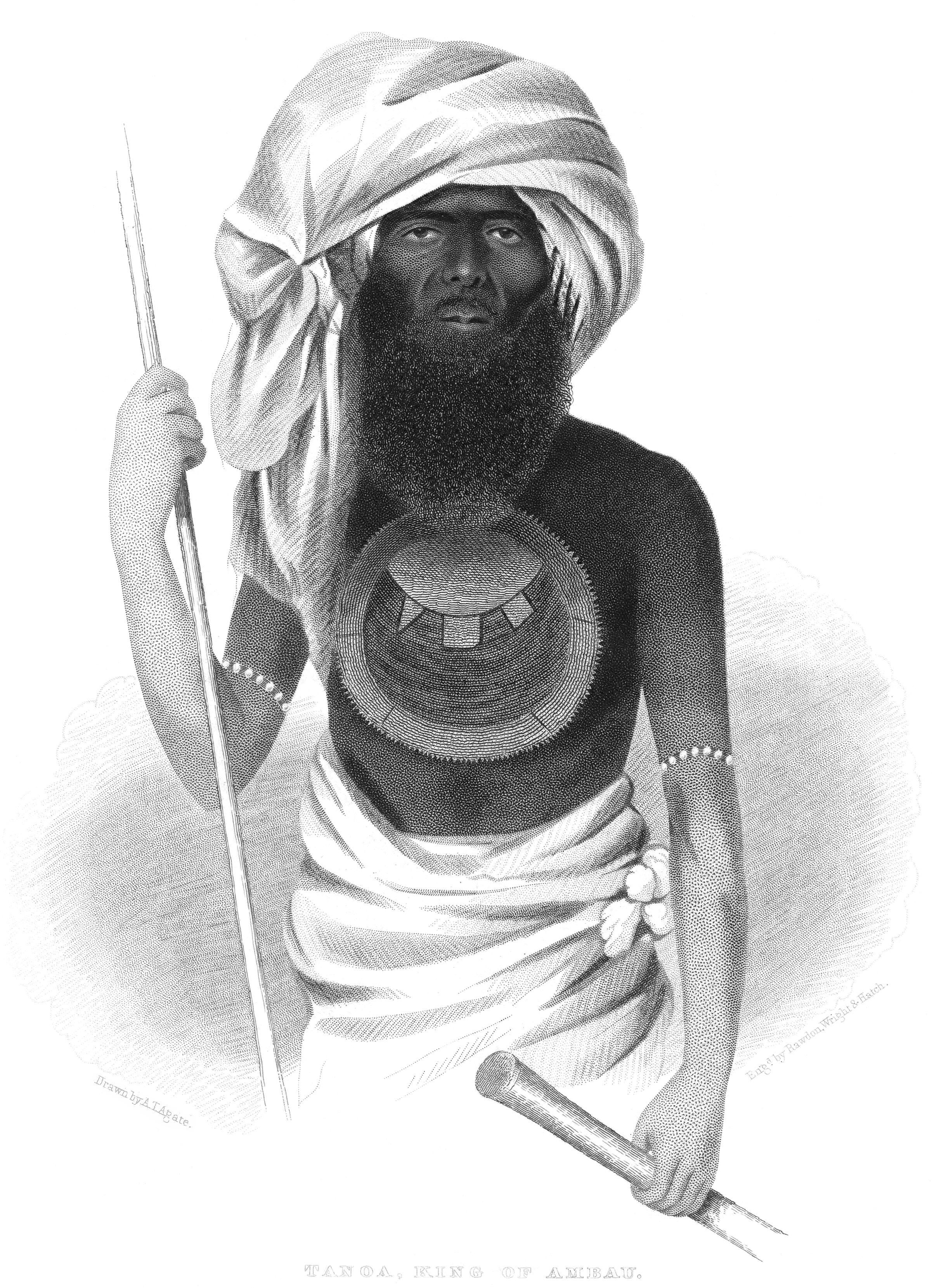 Ratu Tanoa, King of Bau The image is of Ratu Tanoa Visawaqa, King of Bau 1829-1832 and 1837-1852. This is perhaps one of the earliest depictions of the rare black-lipped pearl-shell breast plates, civa. On his head is the turban-like masi head scarf, i-vauvau. Reg. Number: P 25.6 82, Fiji Museum Fiji Museum photograph